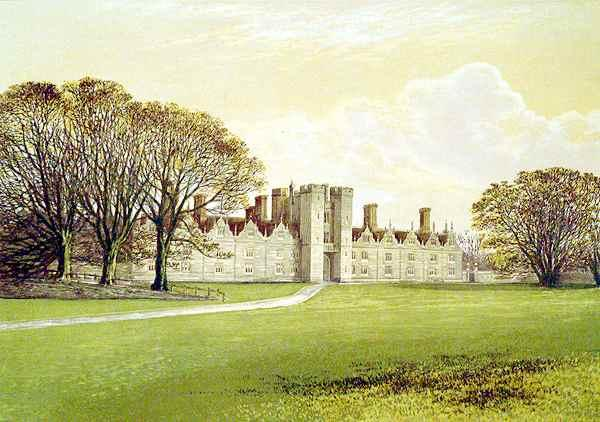 Knole from Morris’s Seats of Noblemen and Gentlemen (1880).